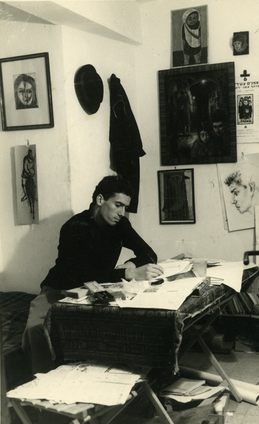 Photograph